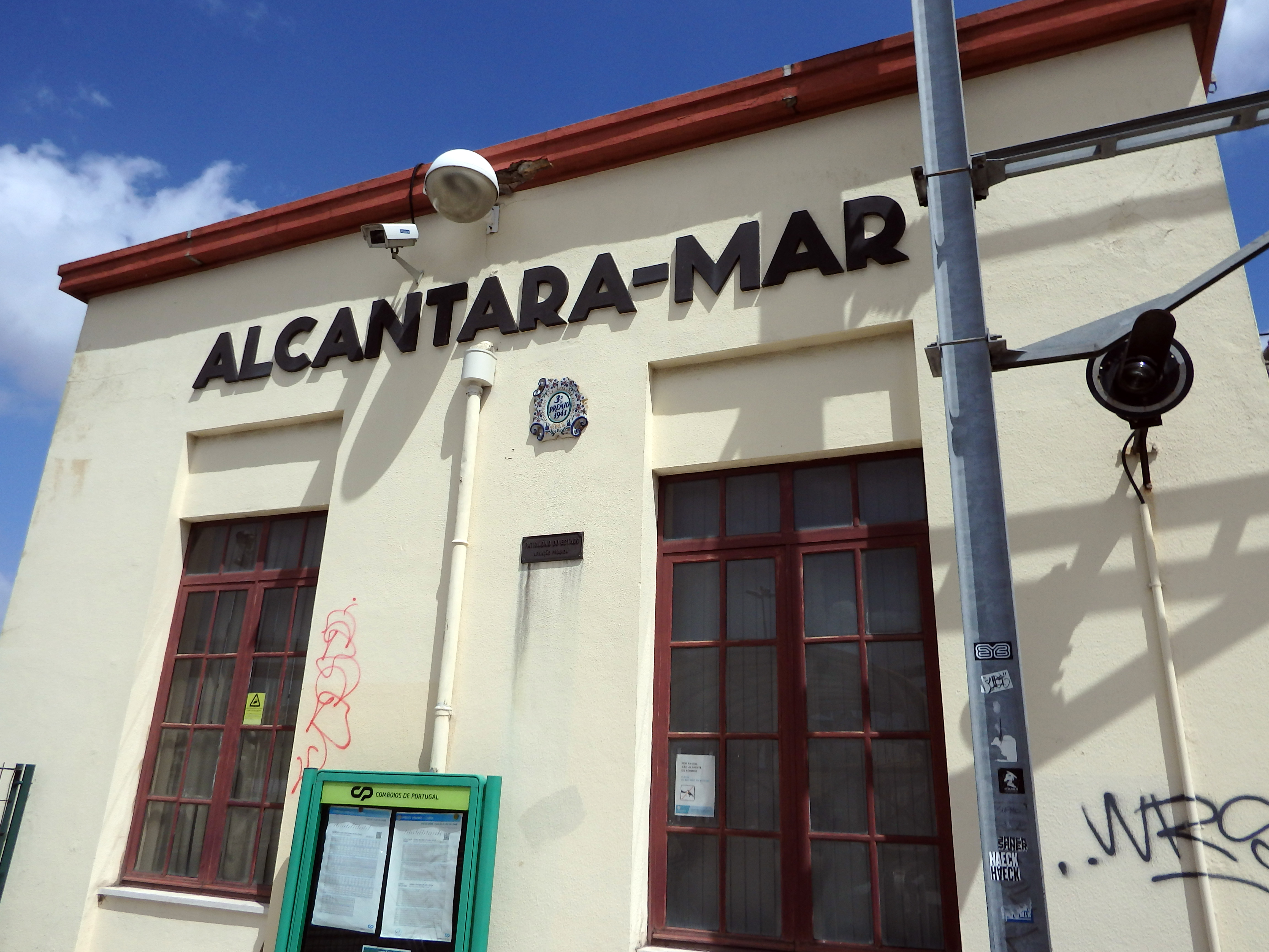 Lisbon